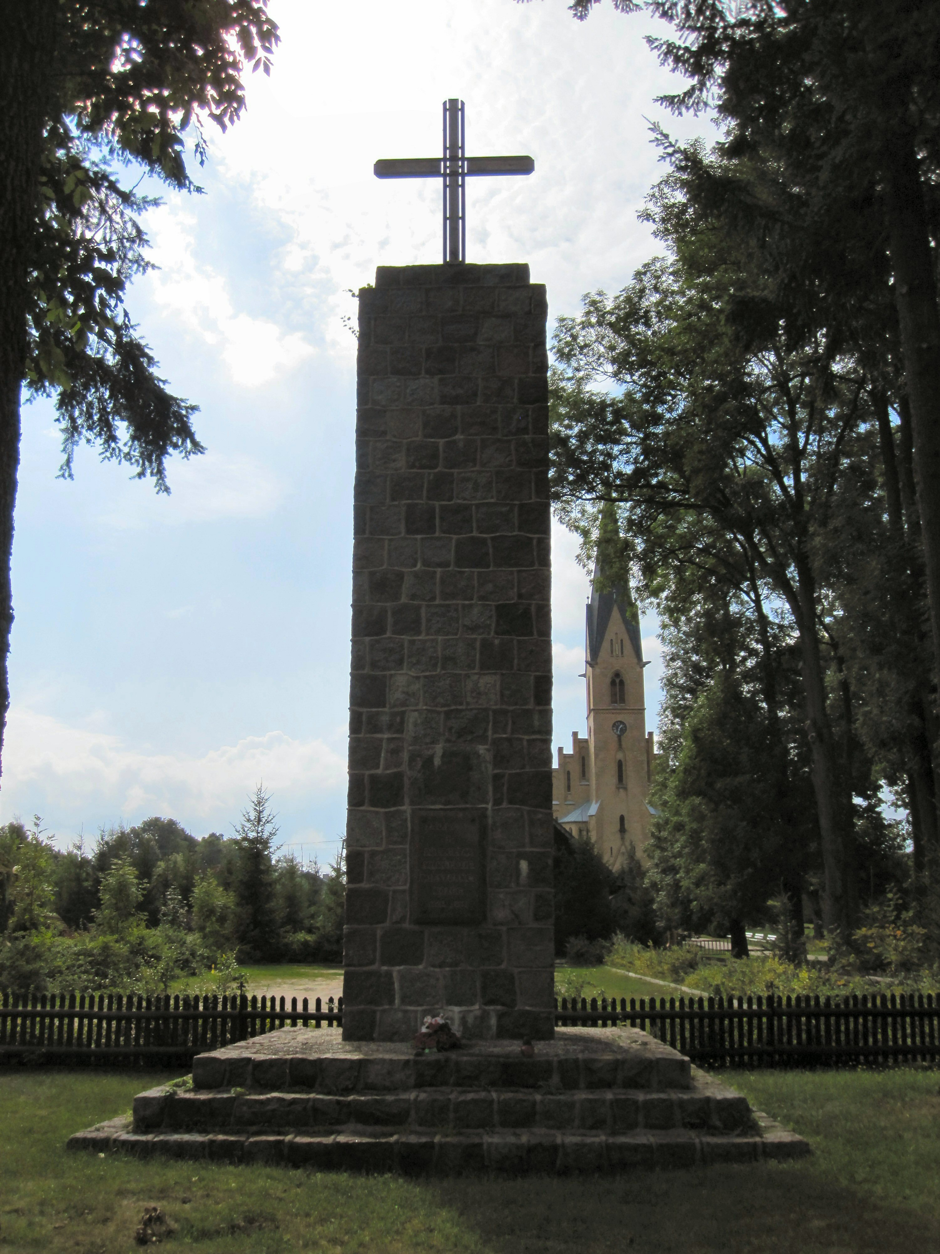 Monument in Rozogi